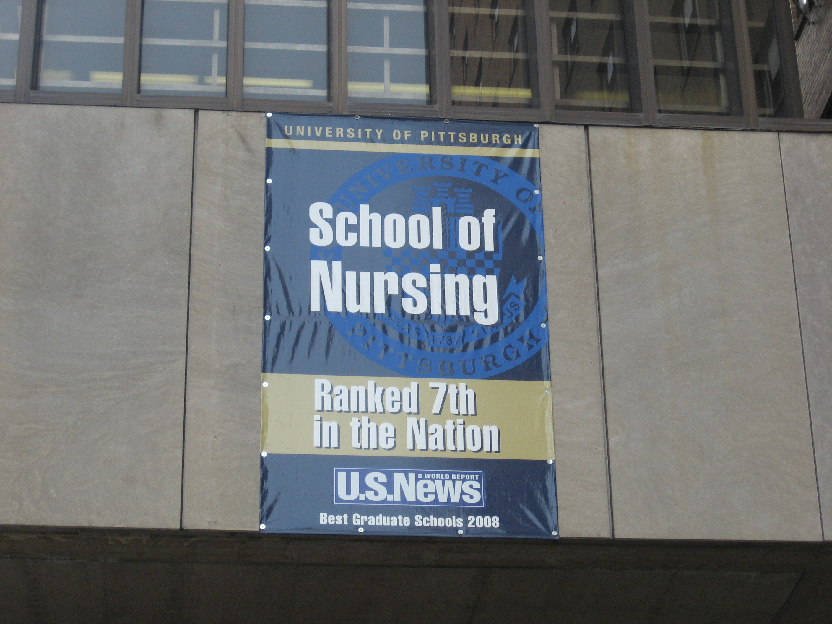 Banner outside Lothrop Hall commemorating the nationally-ranked University of Pittsburgh School of Nursing 40°26′29.8″N 79°57′36.8″W / 40.441611°N 79.960222°W